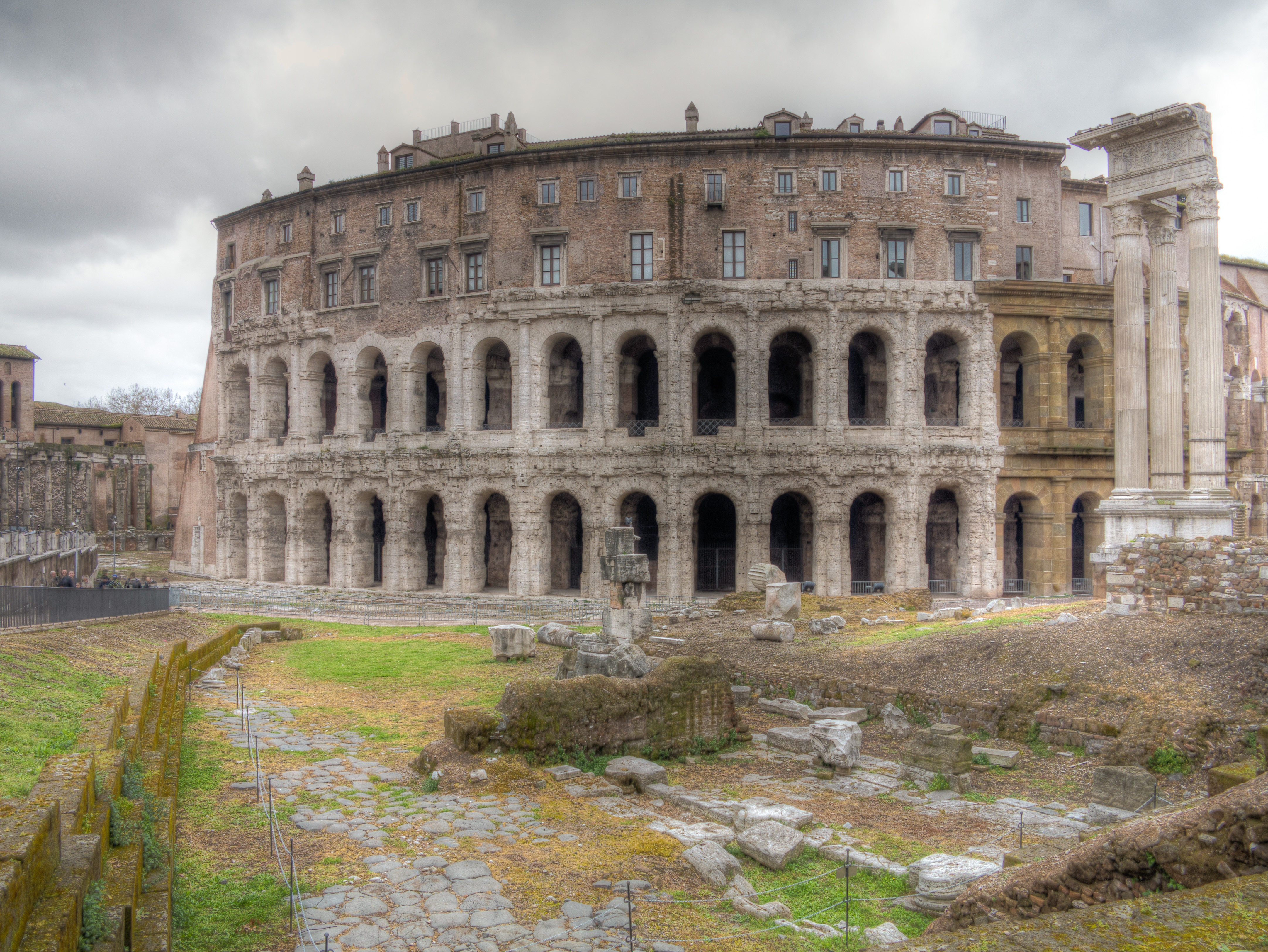 The Theatre of Marcellus (Rome) in Rome / Italy / EU. North side.